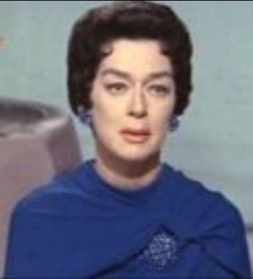 Screenshot of Rosalind Russell from the trailer for the film Auntie Mame.